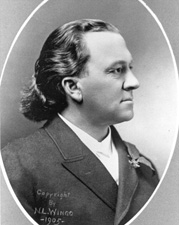 James K. Vardaman, former U.S. senator from Mississippi